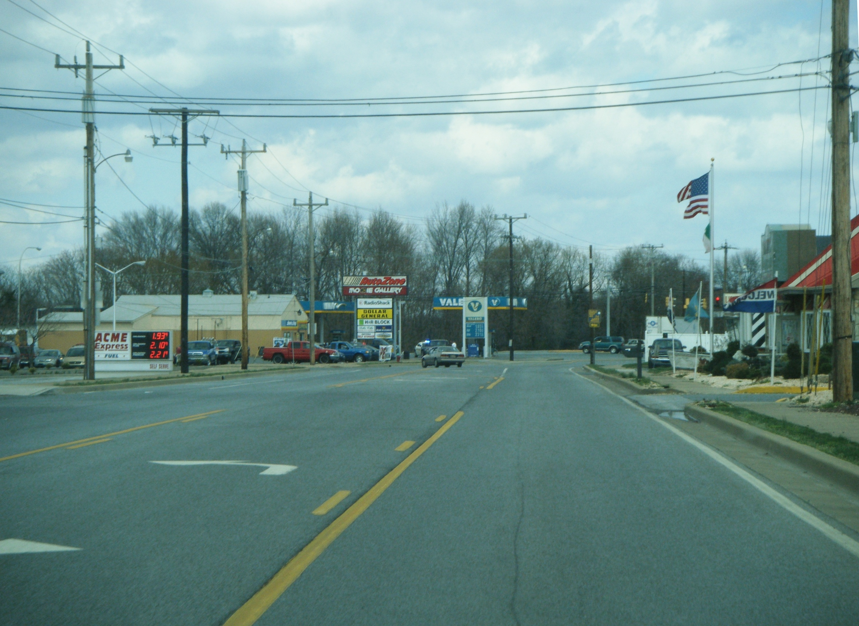 Eastbound Delaware Route 6/Delaware Route 300 (Glenwood Avenue) approaching the intersection with U.S. Route 13 (Dupont Boulevard) in Smyrna, Delaware